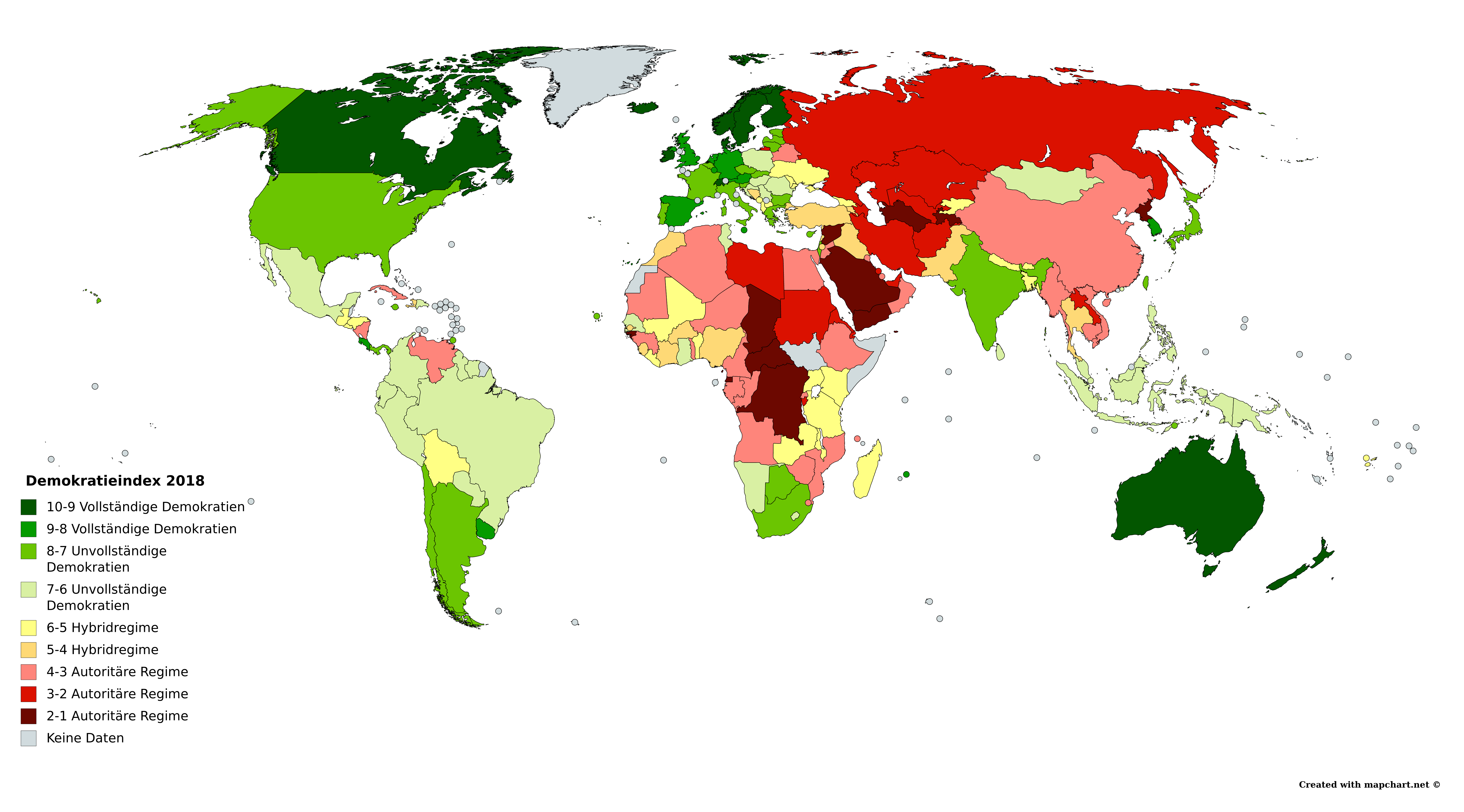 A map of the world showing the results of The Economist's Democracy Index survey for 2018. Each country's democracy is rated on a scale of 0 to 10, with 10 being the most democratic and 0 being the least democratic.